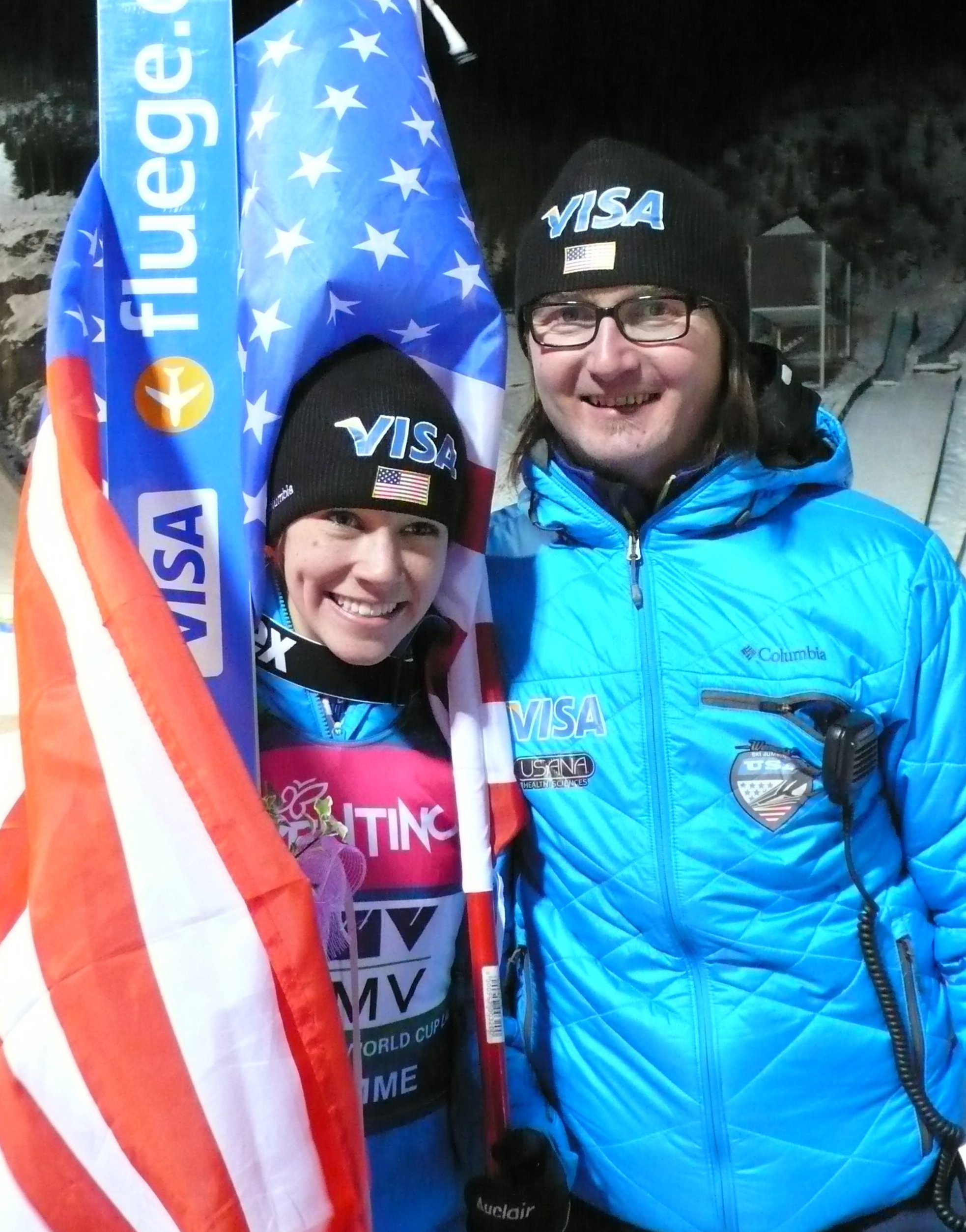 Sarah Hendrickson, 1st at the Ladies Skijumping Worldcup in Predazzo on the 2012-01-15, with her coach Paolo Bernardi